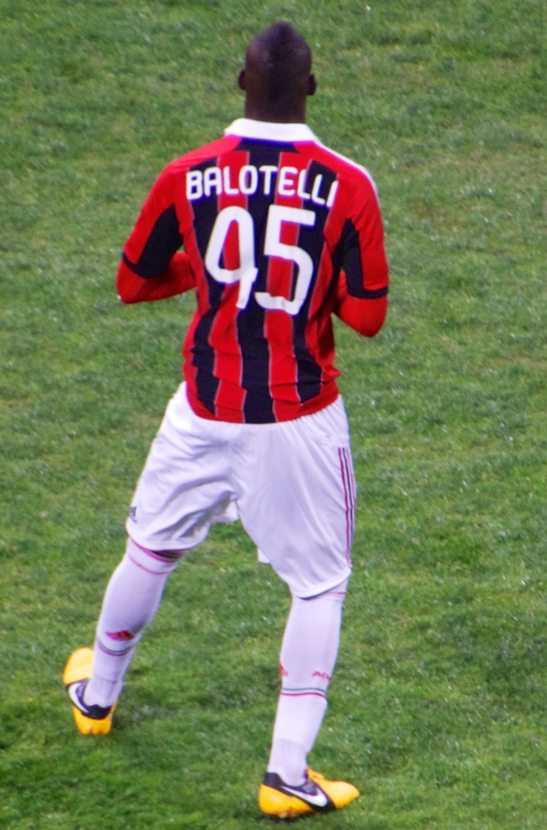 Mario Balotelli during FC Internazionale Milano-AC Milan, february 2013